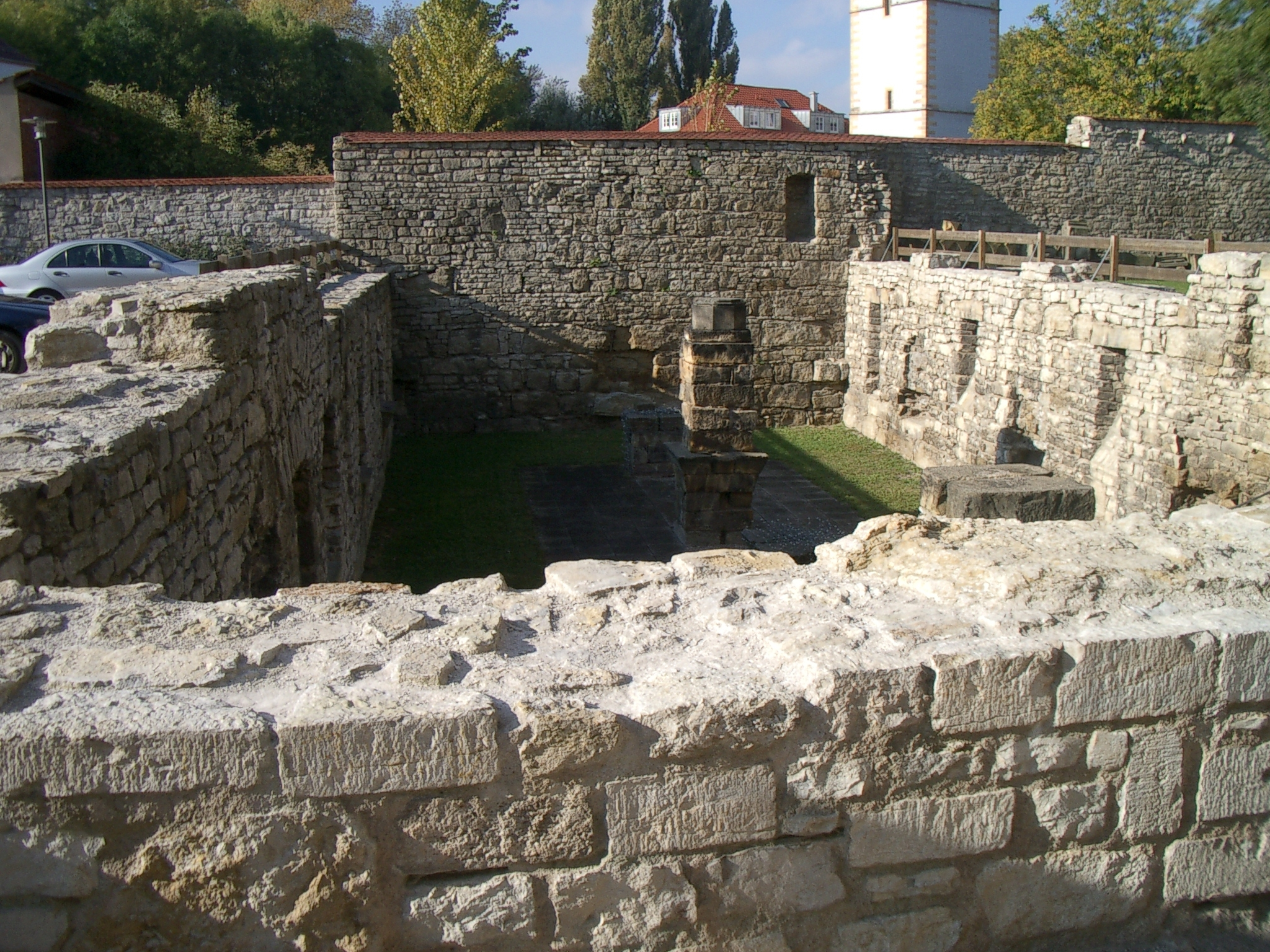 Cellar of destroyed Library of the Augustiner Monastery in Erfurt